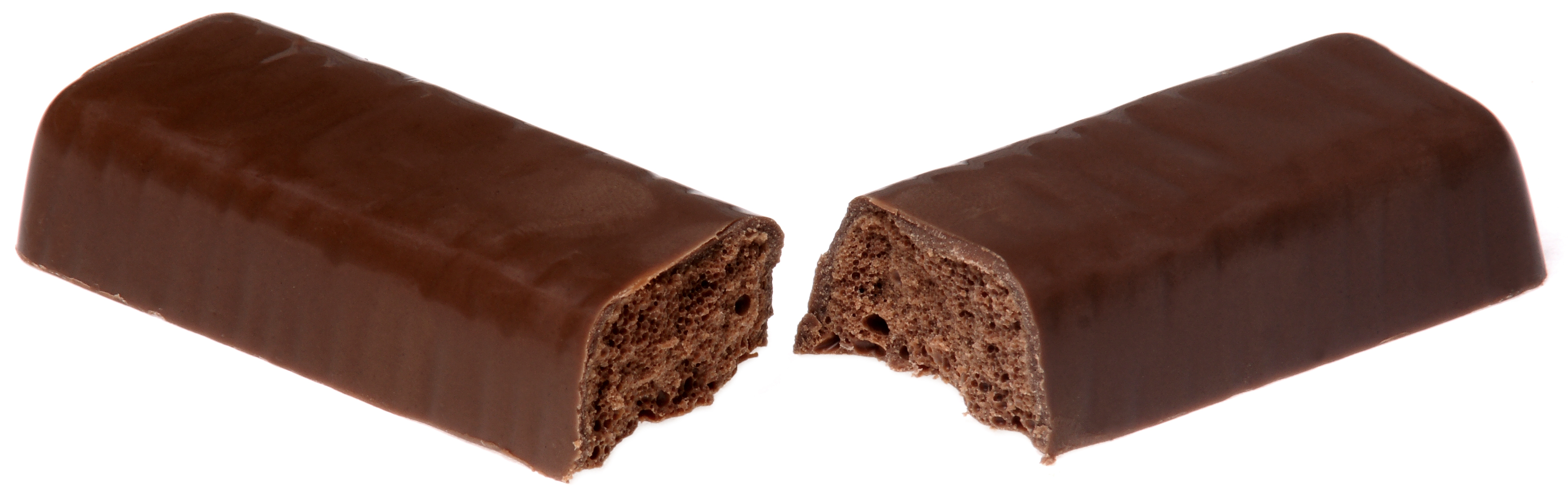 A Cadbury Wispa chocolate bar that has been split in half. These are available in the UK.